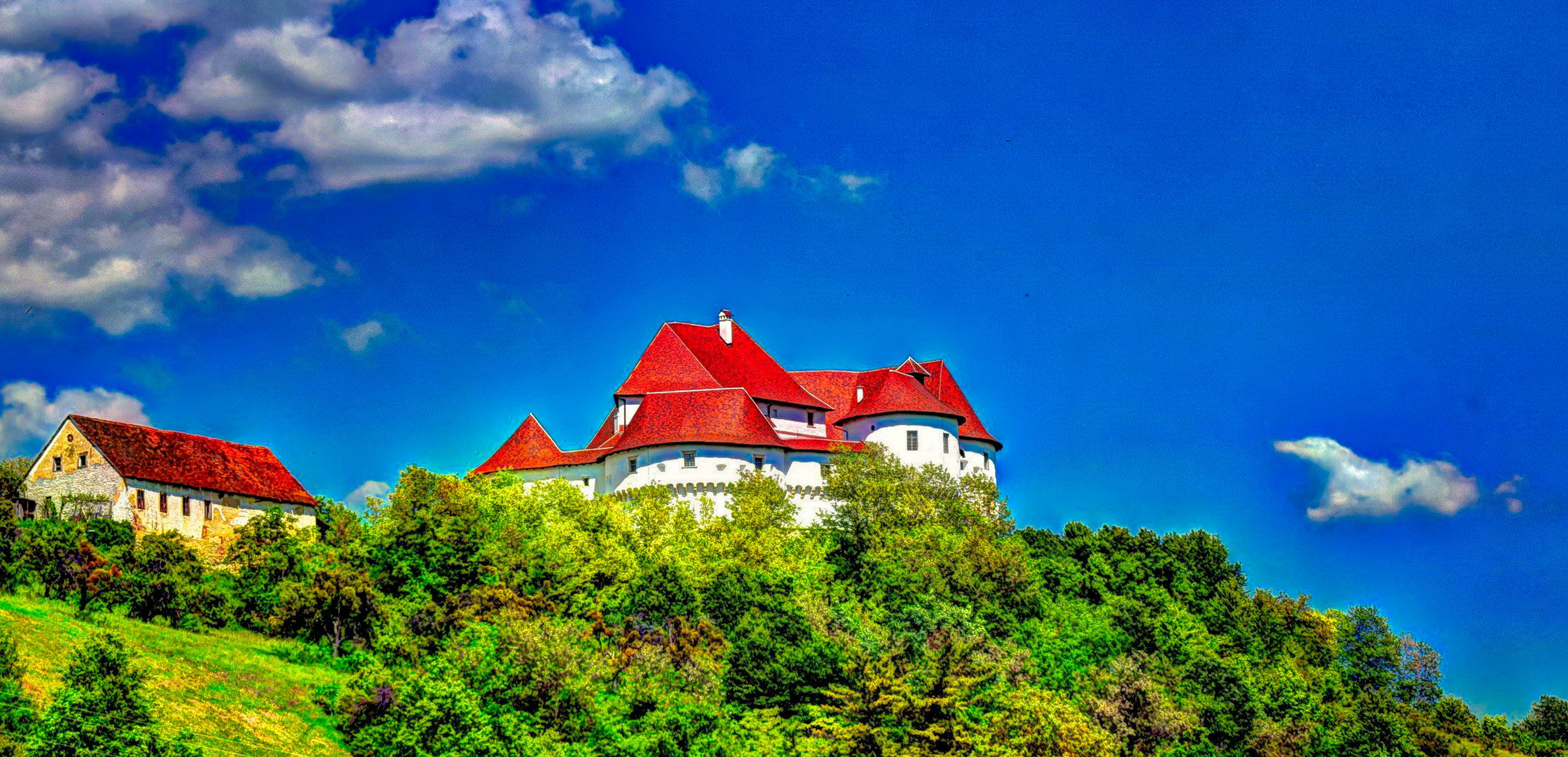 Veliki Tabor Castle Veliki Tabor is a castle and museum in northwest Croatia, dating from the middle of 15th century. The castle's present appearance dates back to the 16th century. Most of the castle was built by the Hungarian noble family of Ráttkay, in whose ownership it remained until 1793. It is located in the region of Zagorje near Desinić, 8 km (5.0 mi) west of Pregrada, 334 m (1,096 ft) above sea level. It has around 3,340 m2 (36,000 sq ft). The castle is owned by the state, which manages it as a museum and a tourist site.